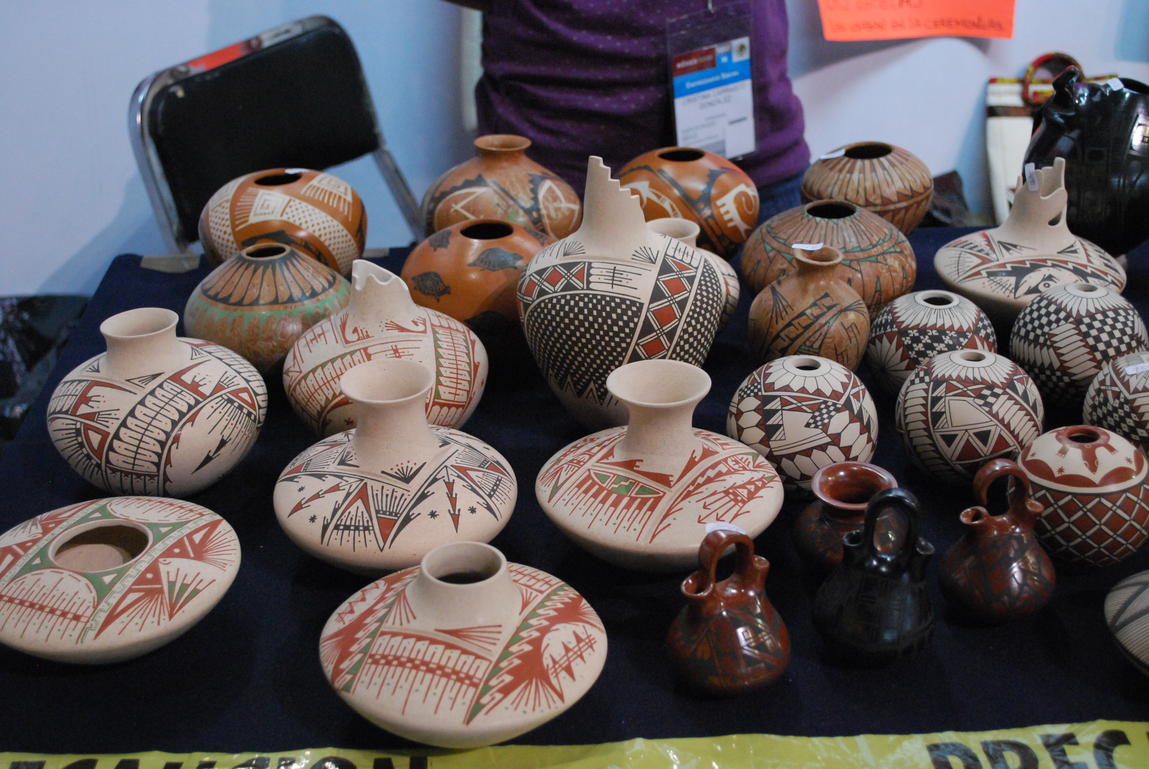 Mata Ortiz pottery from Chihuahua on display at the 2010 FONART exhibition in Mexico City